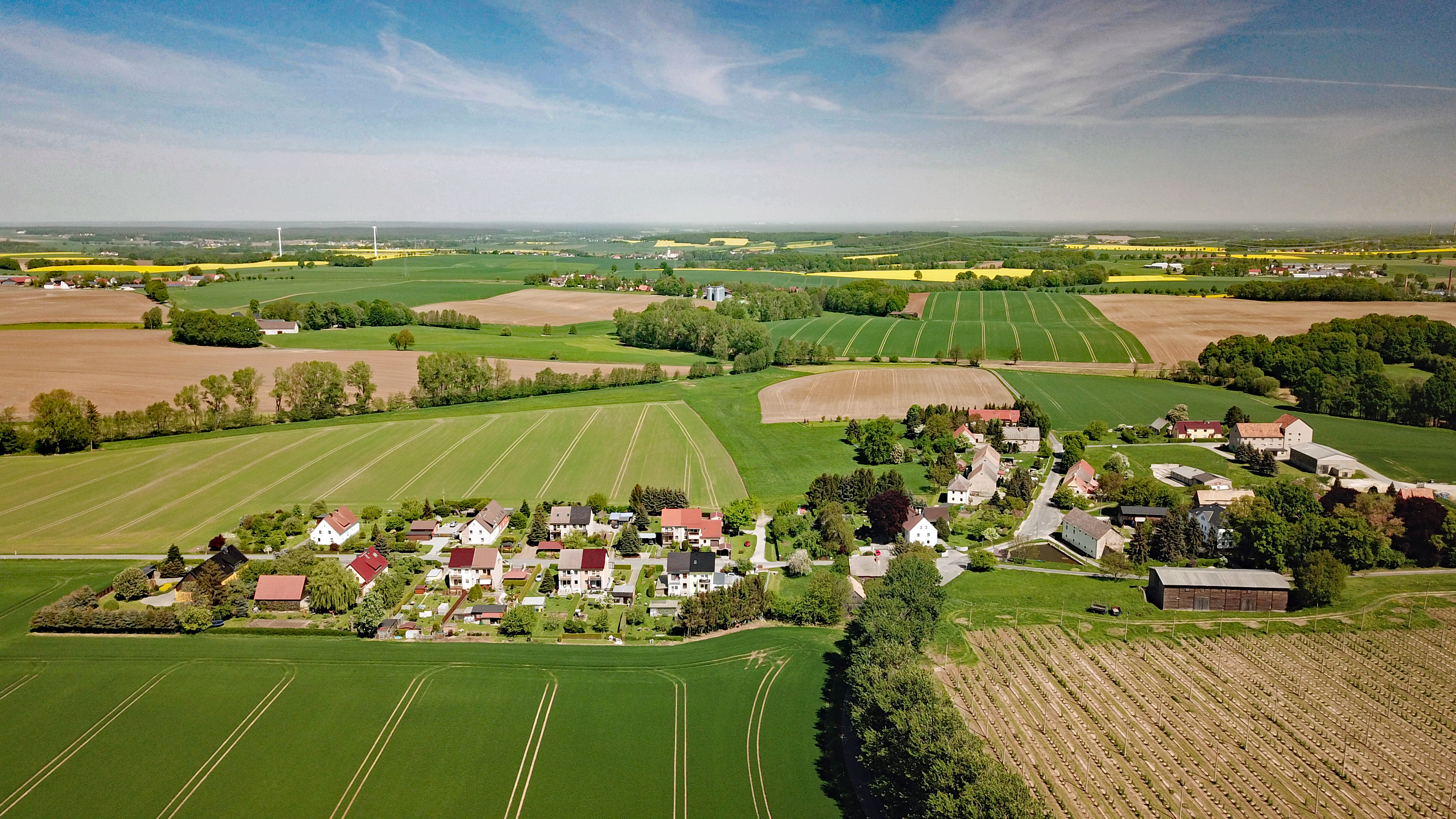 Auschkowitz (Burkau, Saxony, Germany) Hornjoserbsce: Powětrowy wobraz Wučkec pola Porchowa.